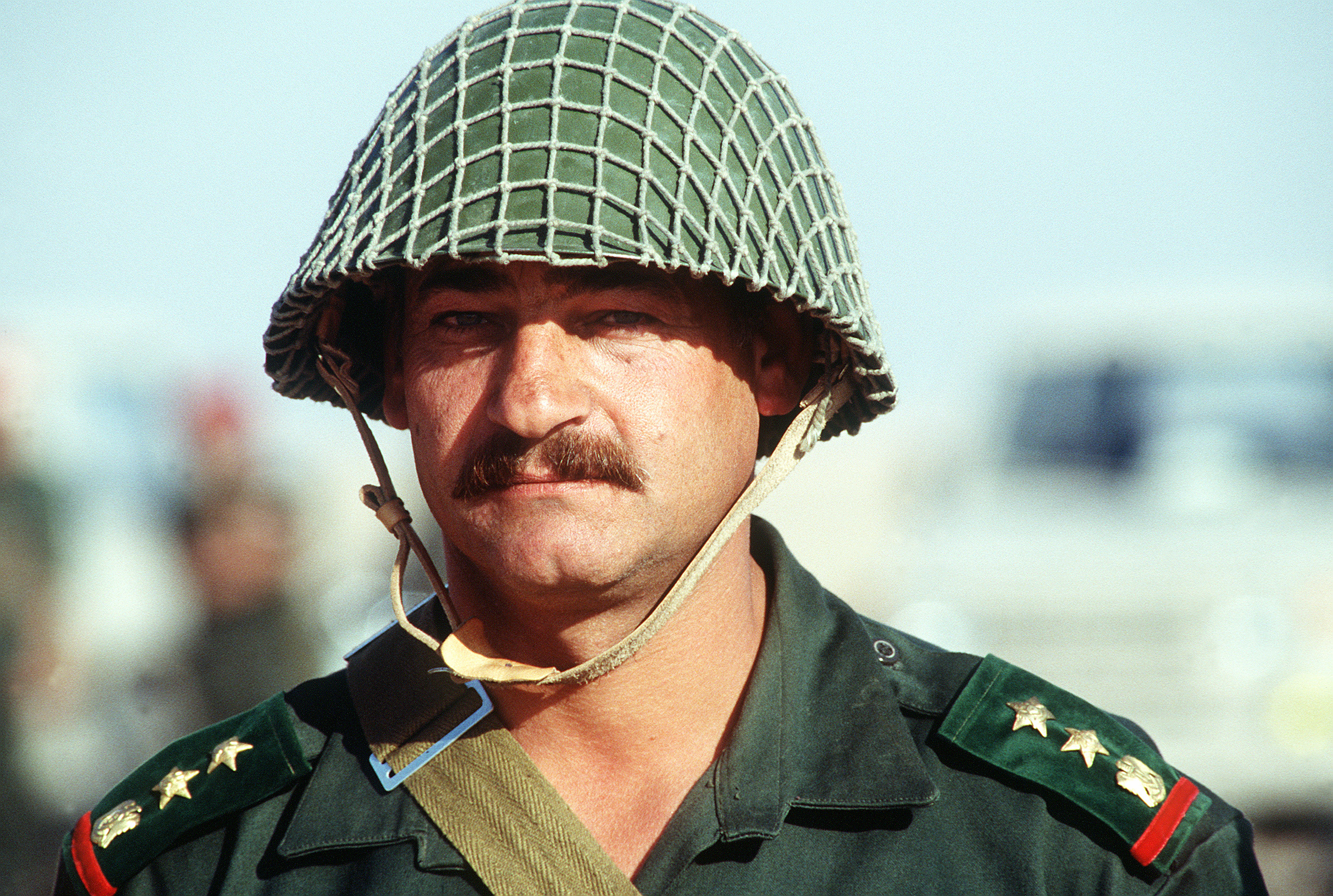 A Syrian army officer stands at attention as his unit prepares for the arrival of a visiting dignitary during Operation Desert Shield.